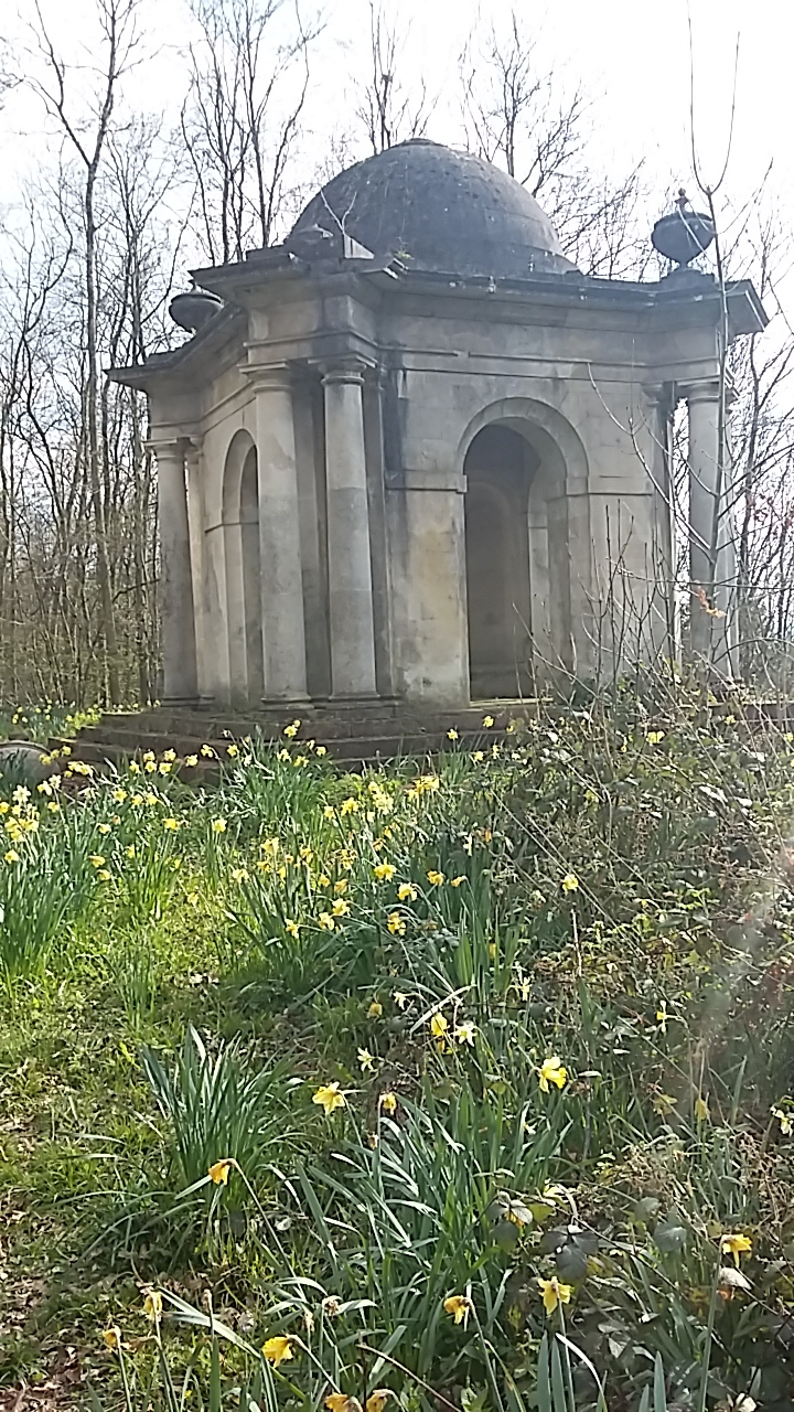 Colonel John Dutton Hunt Hopton (1858 - 1934) of Canon Frome Court was an exceptional Olympic sharpshooter and a director of the Royal Academy of Music. His is buried at the top of Meephill to the east of the parish . His grave is marked by an impressive stone circular classical temple or thoros that has outstanding resonant musical qualities. This mausoleum marks the spot from which he once hit a bulls-eye 1500 yards away at Old Birchend.